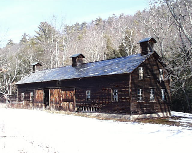 Marie Zimmerman Farm Cattrle/Hog Barn, Delaware Water Gap Nation al Recreation Area